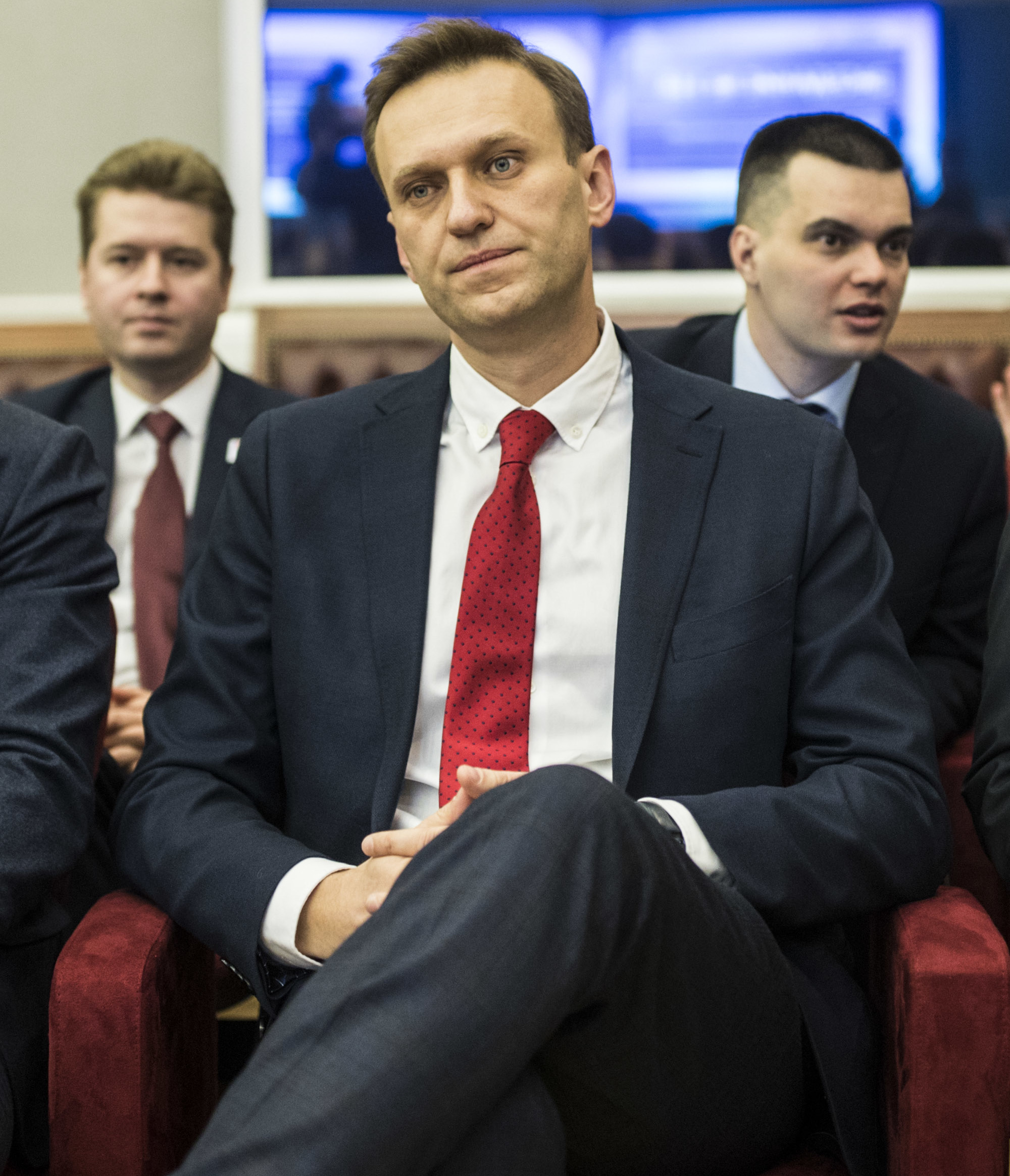 Alexei Navalny, Russian opposition leader, at Central Election Commission's session which is about to deny his right to be in the ballot on the upcoming presidential elections